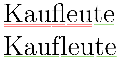 Top: wrong fl-ligature in german word “Kauf·leu·te” brings “Kaufl·eu·te”; Bottom: correct, using "| (in LaTeX) or ‌ (in HTML) to avoid auto-replacement Font: Computer Modern